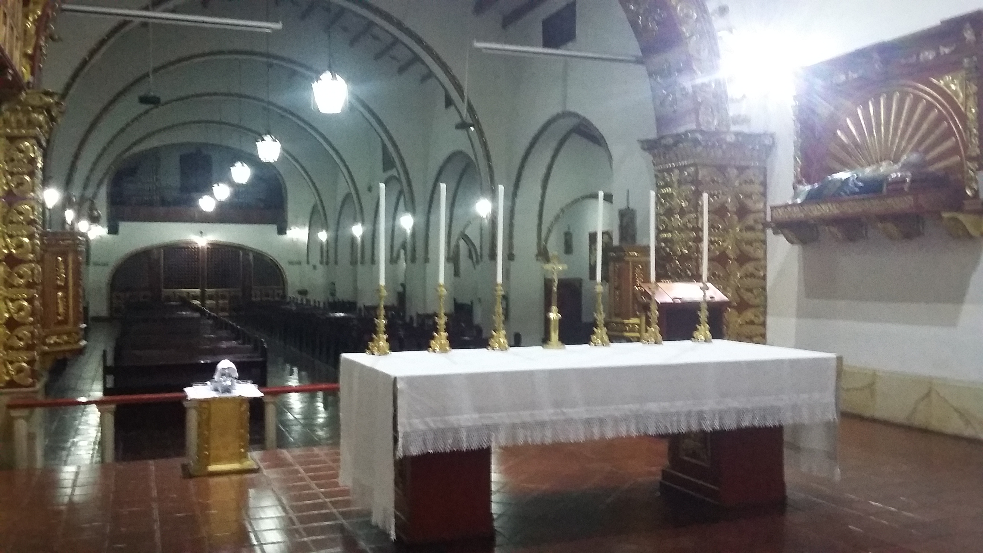 Main Nave St. Jacob's Cathedral